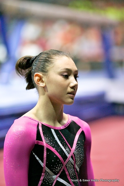 Kyla Ross